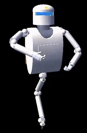 Robonaut concept in 1996